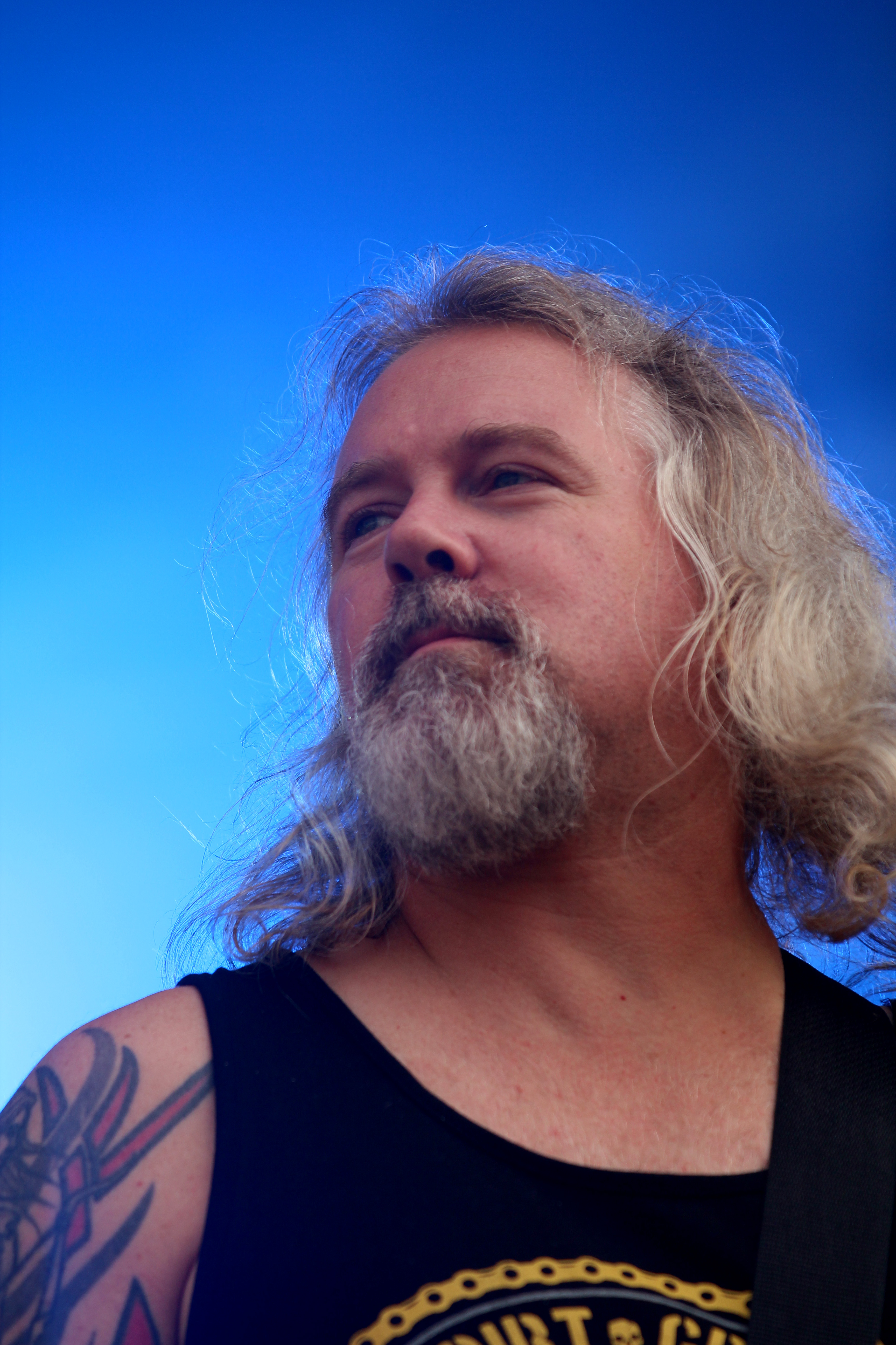 The Swedish gothic metal band Tiamat at the Rockharz Open Air 2014 in Ballenstedt/Germany